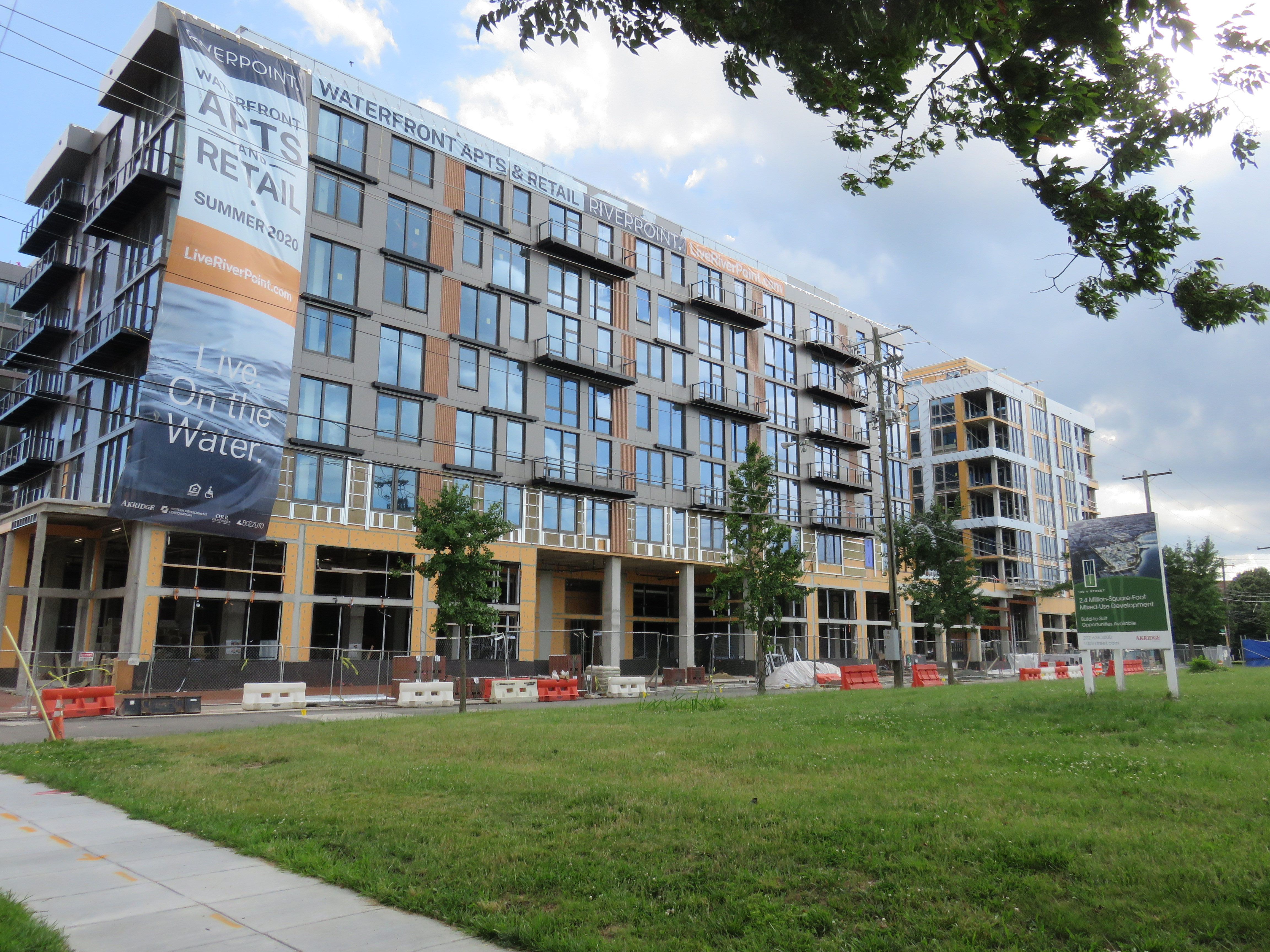 Residential building at late stage of construction in Buzzard Point in Washington, D.C. in 2020